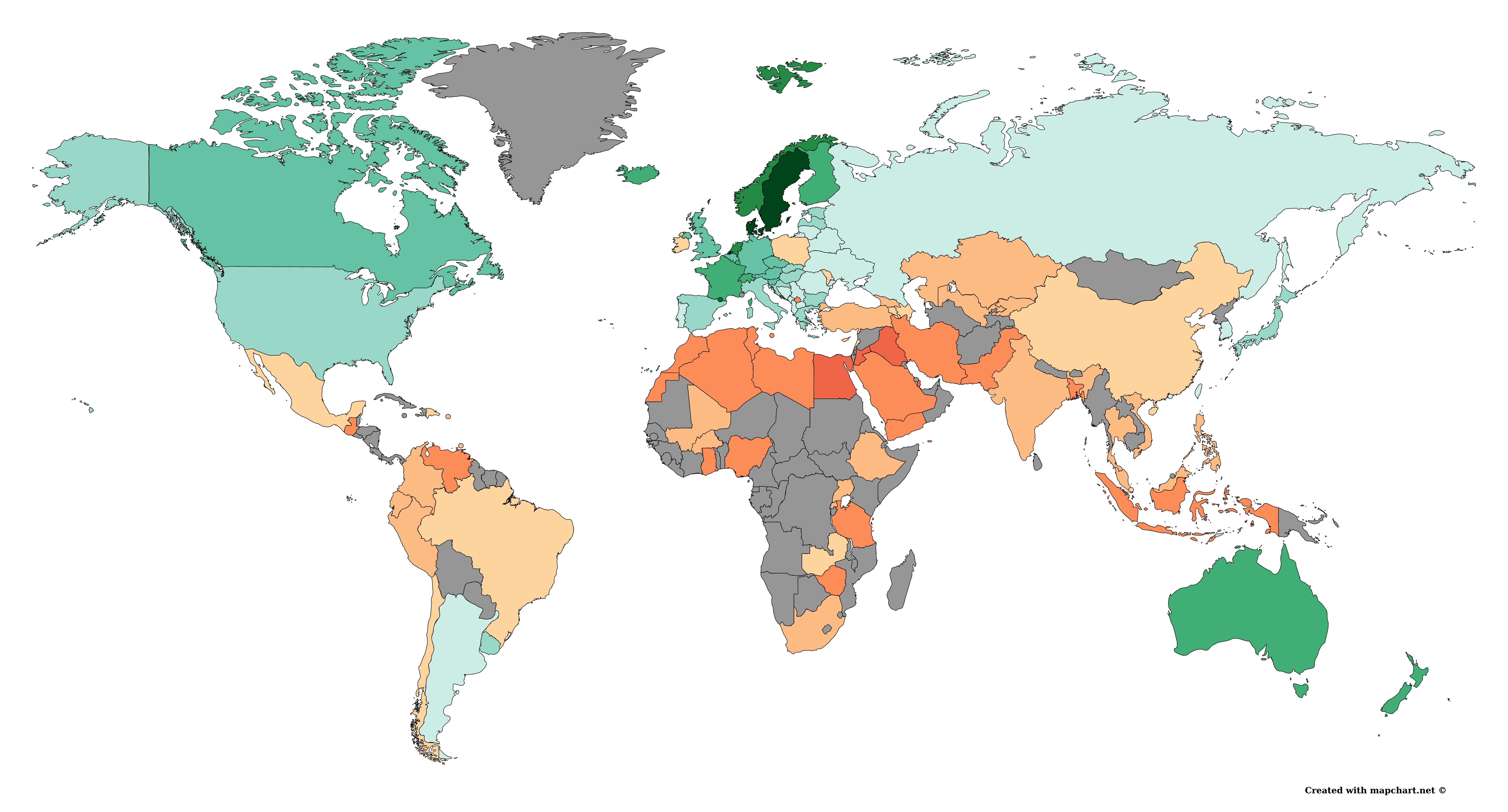 Countries colored with green have cultures that are more individualistic than the world average. Countries colored in red have relatively collectivistic cultures. Reference Beugelsdijk, S., & Welzel, C. (2018). Dimensions and dynamics of national culture: Synthesizing Hofstede with Inglehart. Journal of Cross-Cultural Psychology, 49(10), 1469-1505.